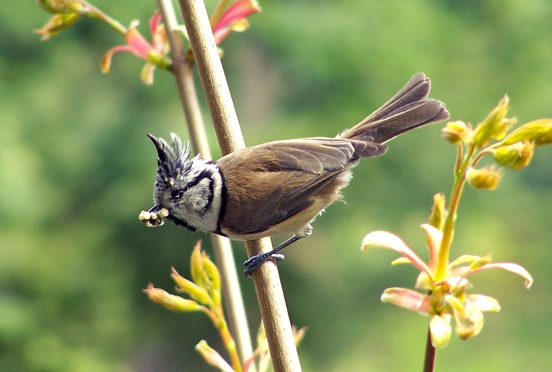 Crested tit